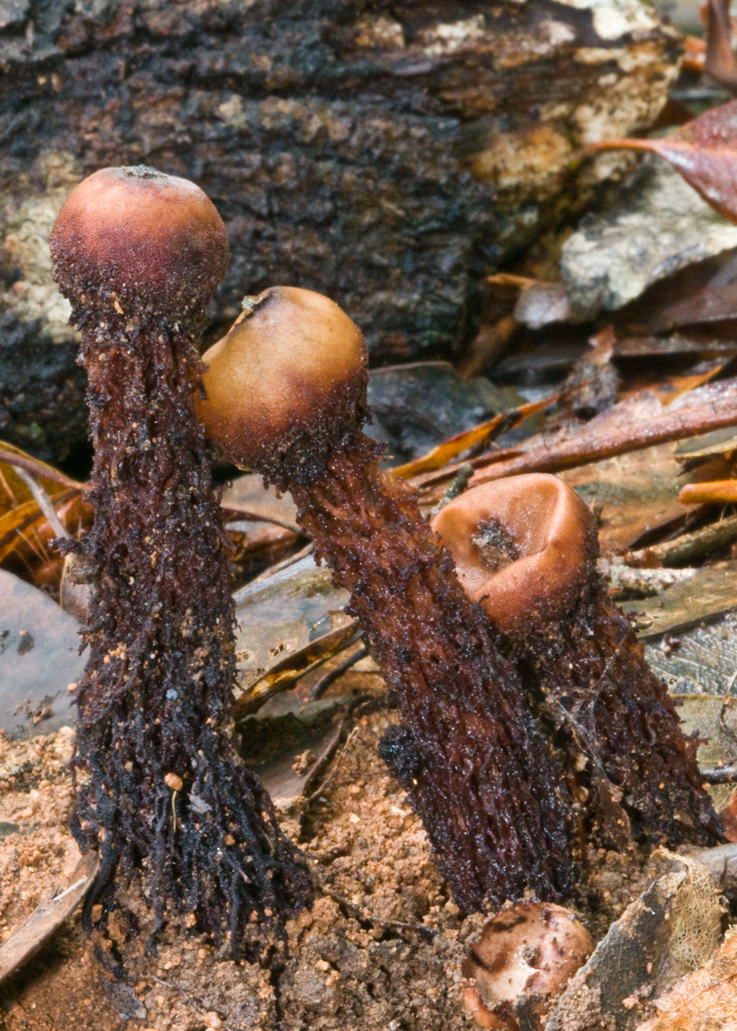 The mushroom Calostoma fuscum, from the family Sclerodermataceae